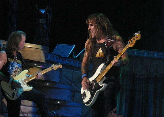 Steve Harris on stage in Paris (Bercy arena) on July 1st 2008